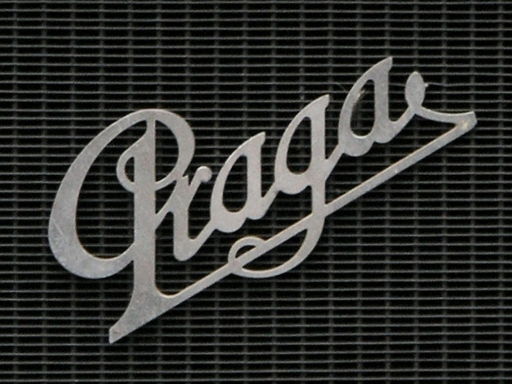 Badge of car company Praga